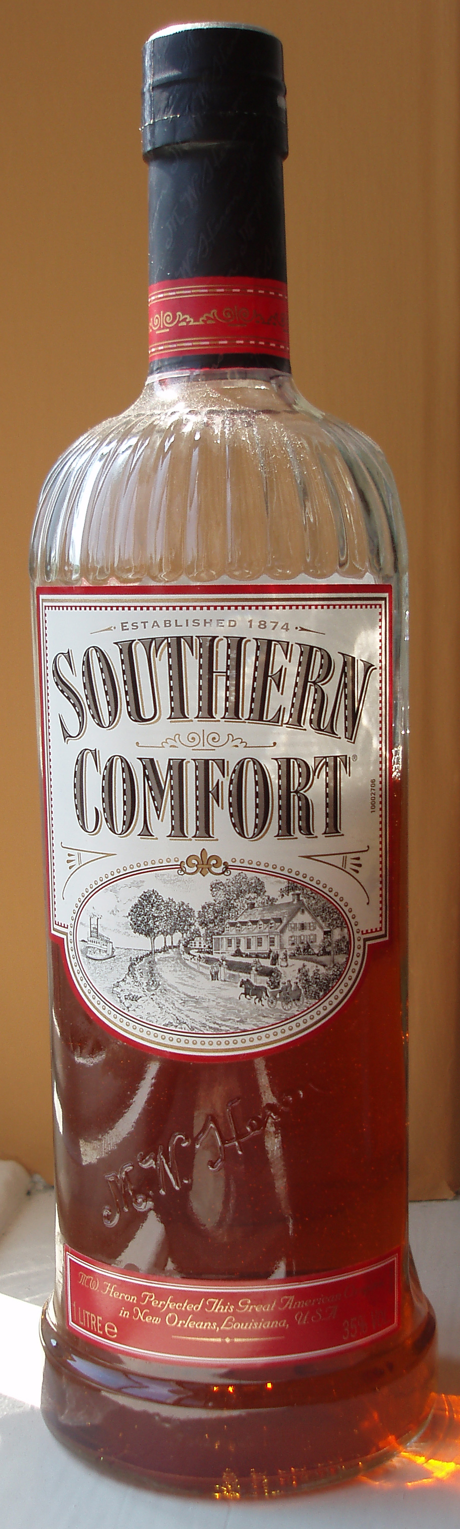 A 1 Litre bottle of en